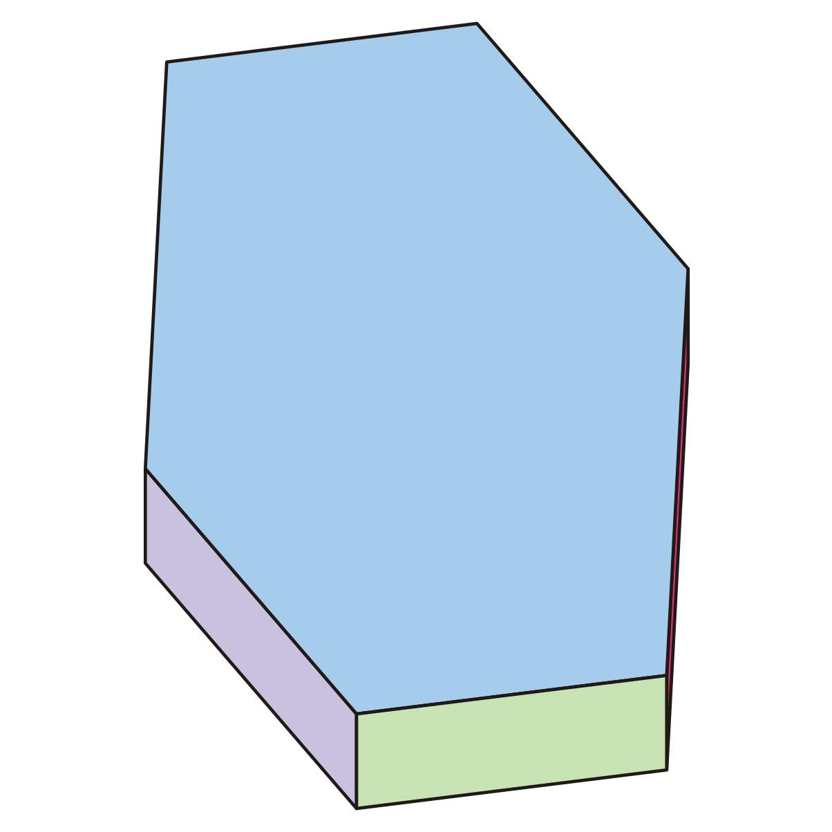 drawing of an zincgartrellite crystal with crystal forms {111}, {100}, {110} und {010}; reference: U. Baumgärtl in